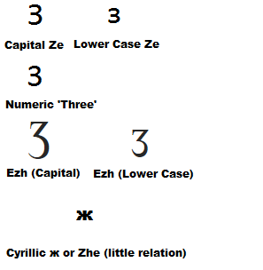 Ze and it's relevancies.ЗЗЗ